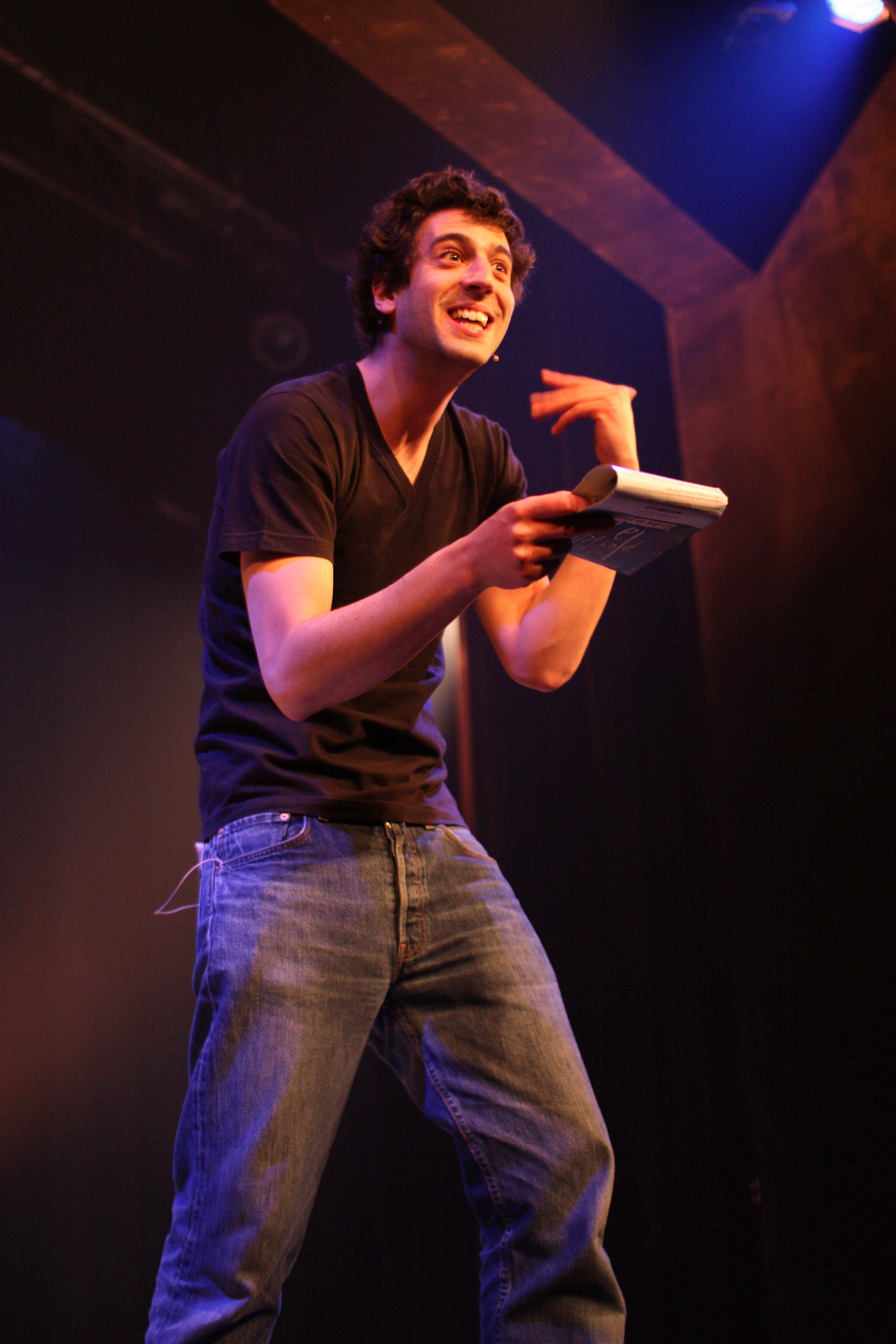 Max Boublil at the Comédie de Paris reading "Plus belle la vie" game rules.